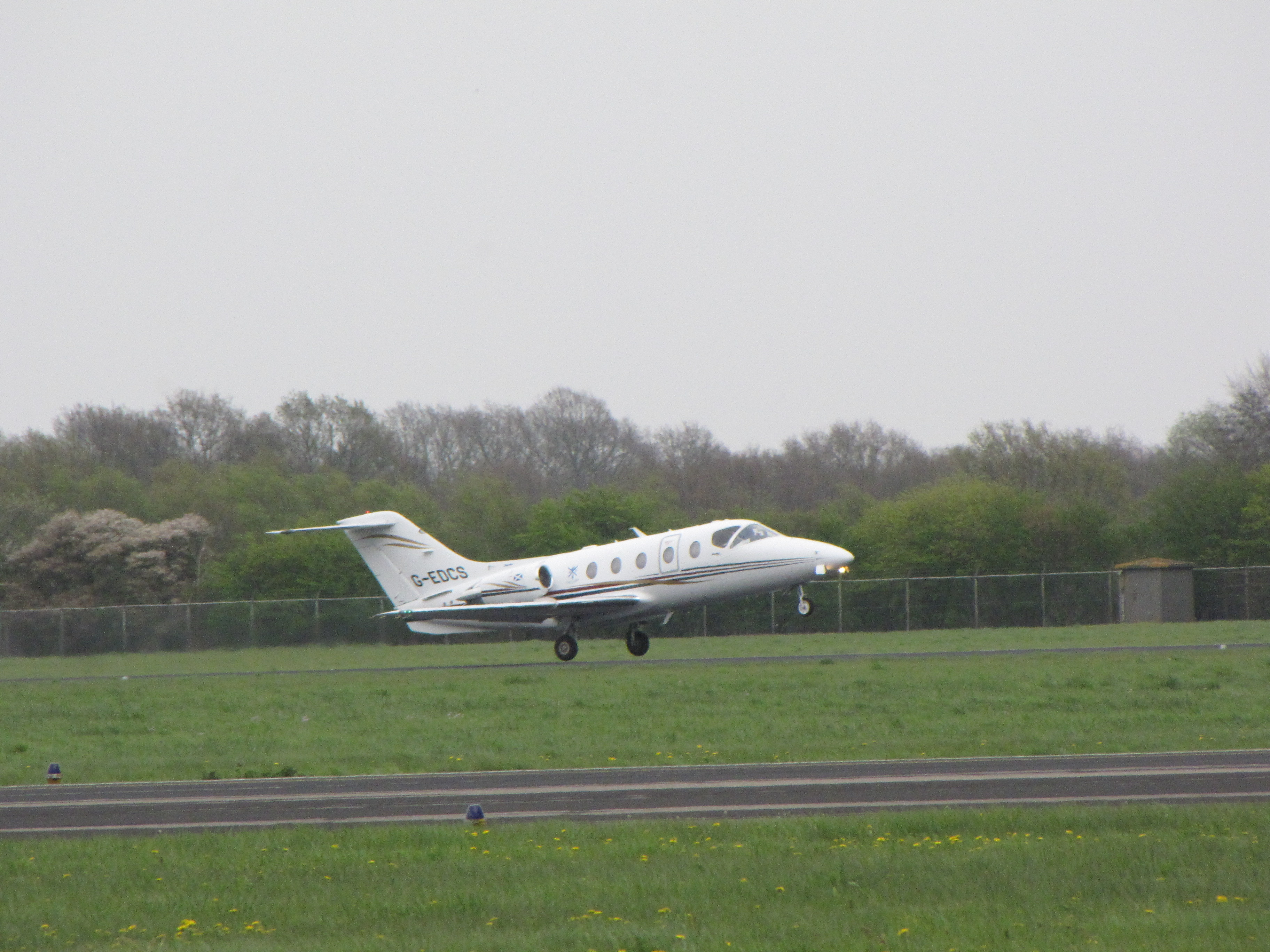 Raytheon Hawker 400XP on Groningen Airport Eelde